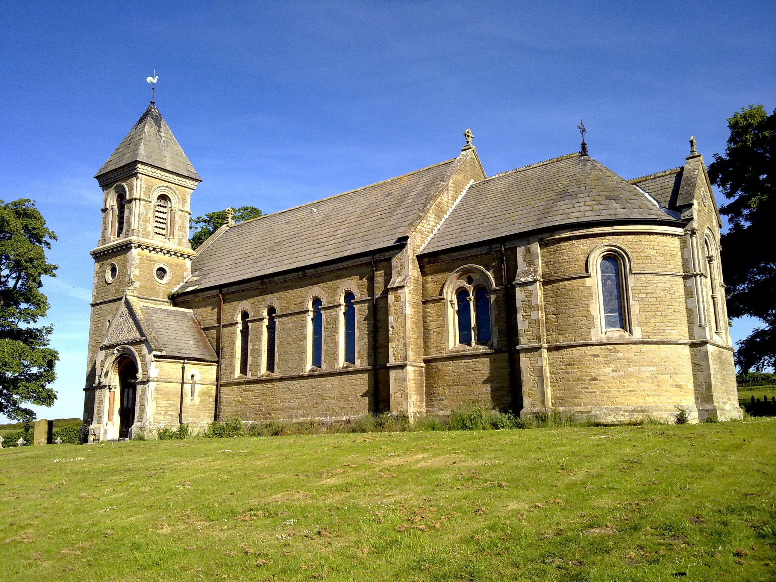 St Marys Church, Foxholes